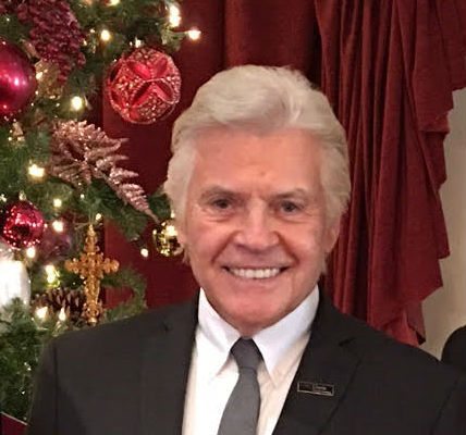 Picture of George Shannon, Actor